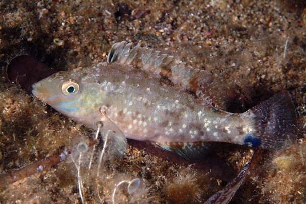 Symphodus cinereus photographed near Tuscany (Italy). Photo by Stefano Guerrieri.